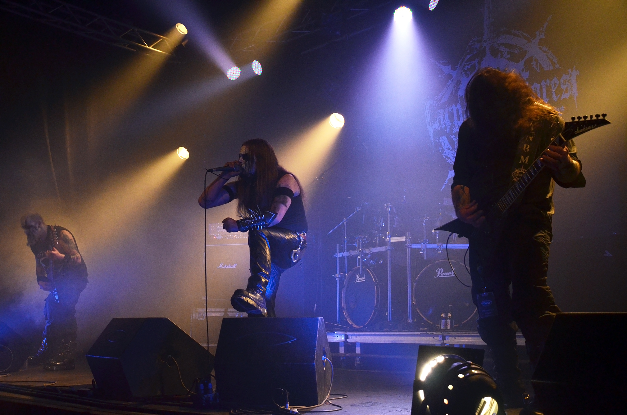 The Norwegian Black Metal band Carpathian Forest performing at the Throne Fest, in Kuurne ( Belgium), on the 11th of May 2013.